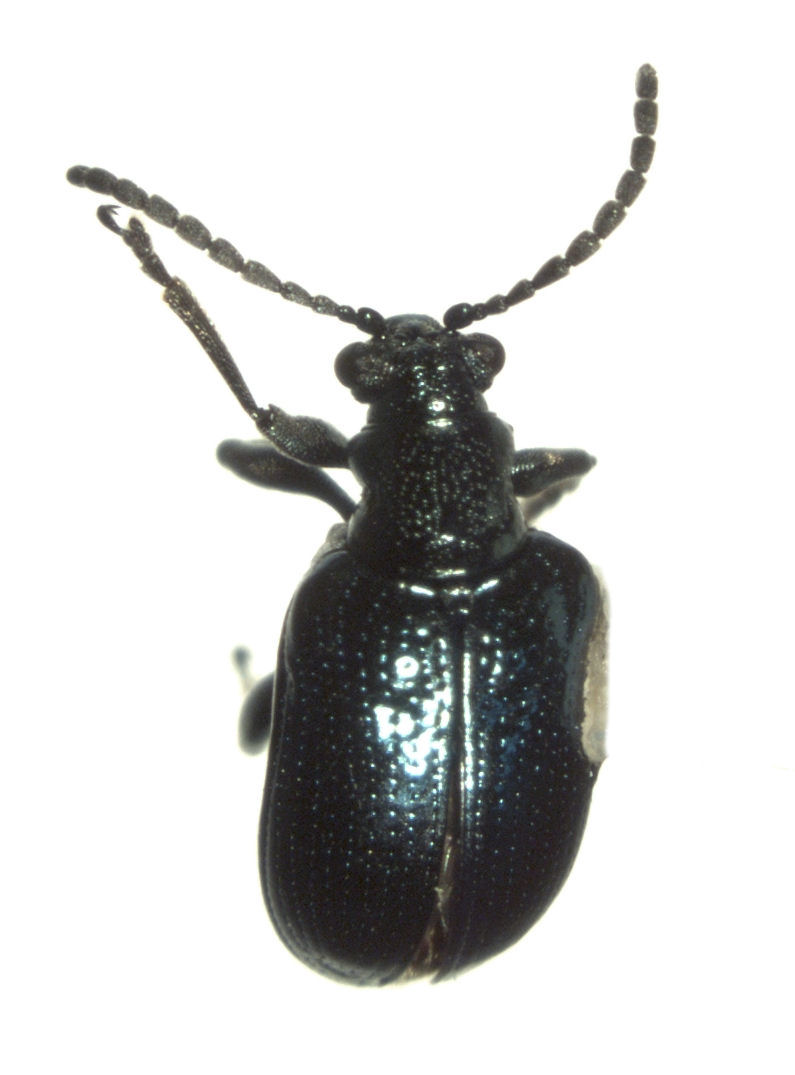 adult Lema cyanella